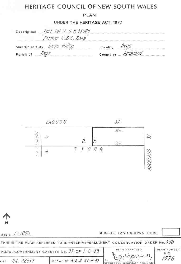 CBC Bank Building, Bega: PCO Plan Number 588